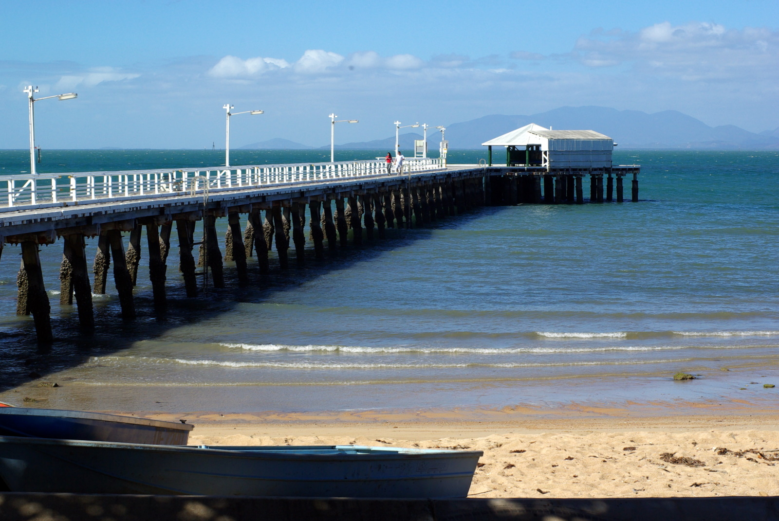 The jetty at Picnic Bay, on Magnetic Island. Formerly used as the ferry terminal.